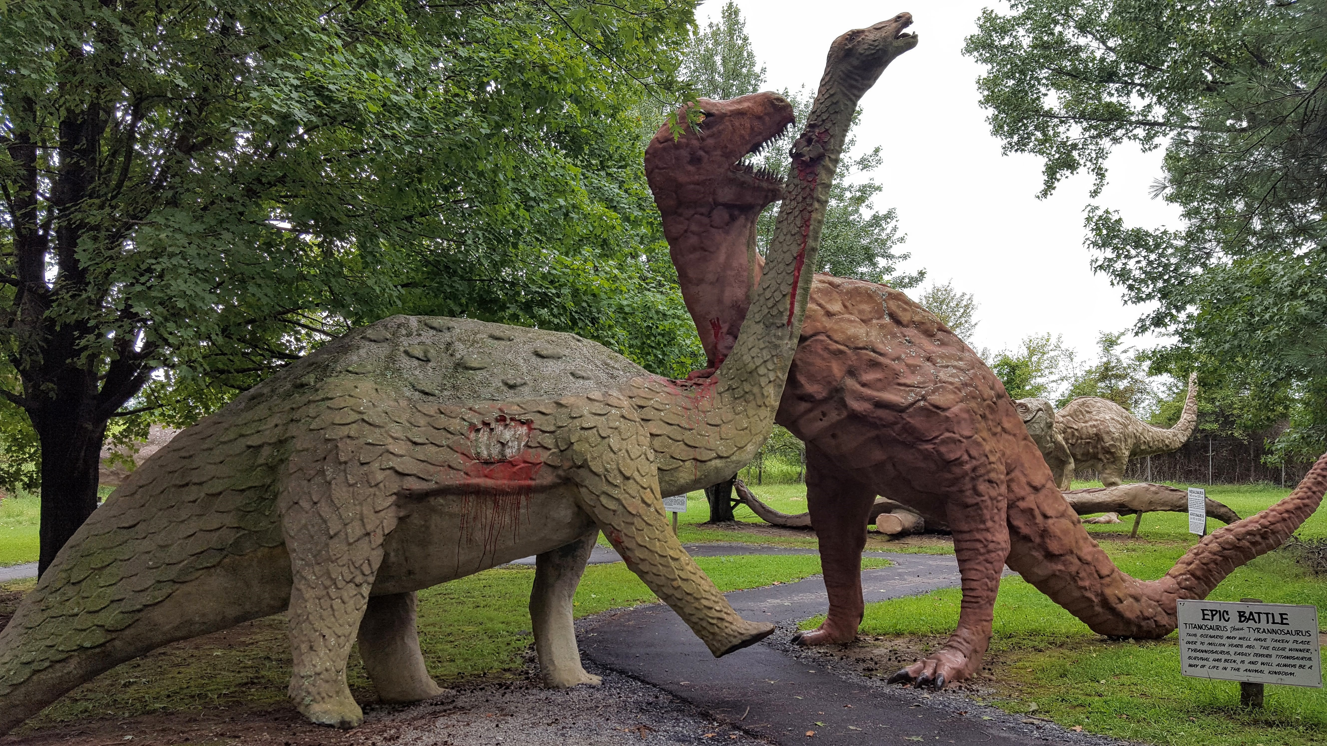 Two fiberglass dinosaur sculptures posed in a fight, from Dinosaur Land park in White Post, Virginia. The small sign at bottom right reads "Epic battle: titanosaurus versus tyrannosaurus. This scenario may well have happened over 70 million years ago. The clear winner, tyrannosaurus, easily devours titanosaurus. Survival has been, is and will always be a way of life in the animal kingdom."